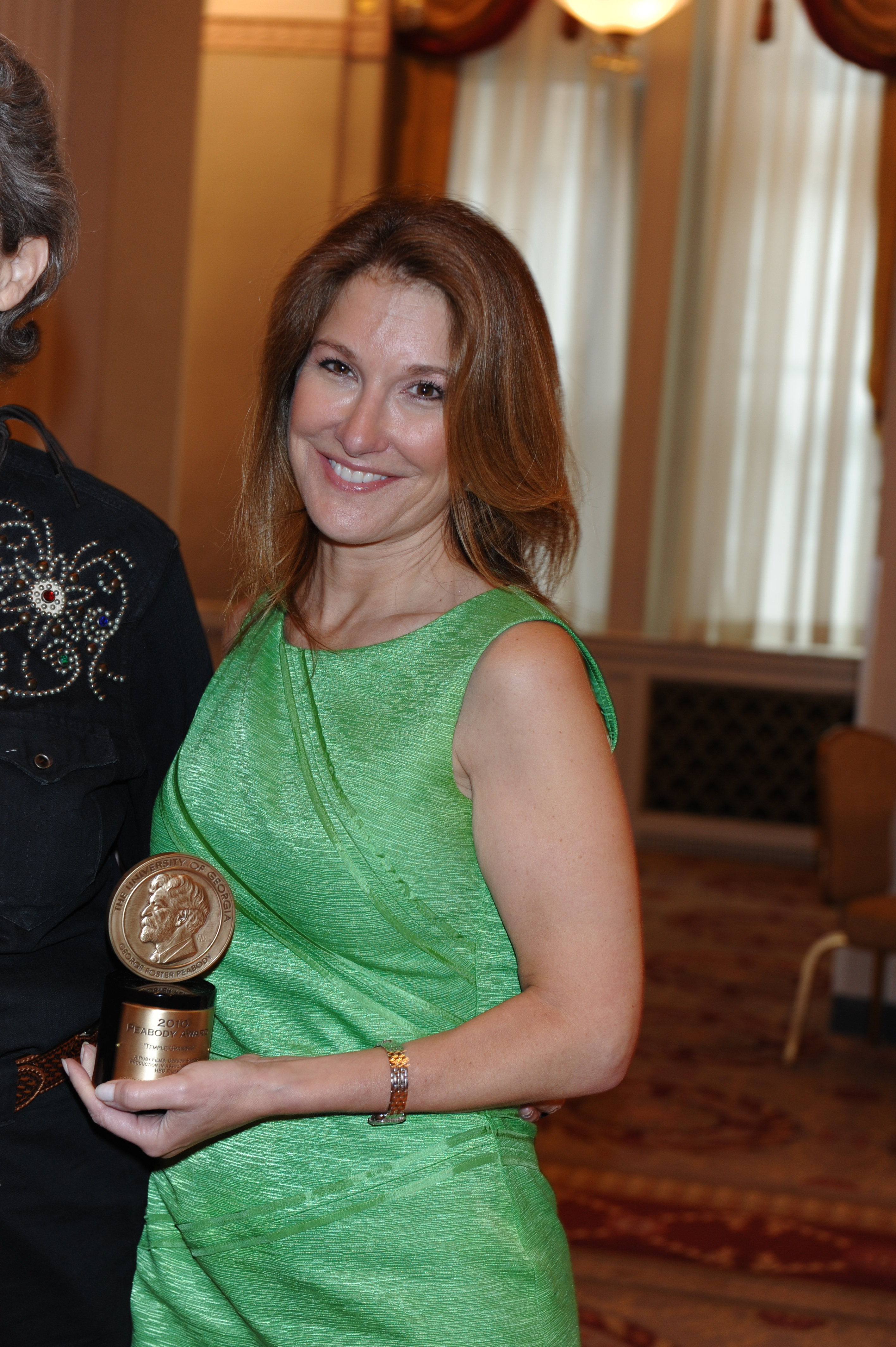 PHOTO CREDIT: ANDERS KRUSBERG / PEABODY AWARDS Emily Gerson Saines 70th Annual Peabody Awards Luncheon Waldorf=Astoria Hotel May 23, 2011